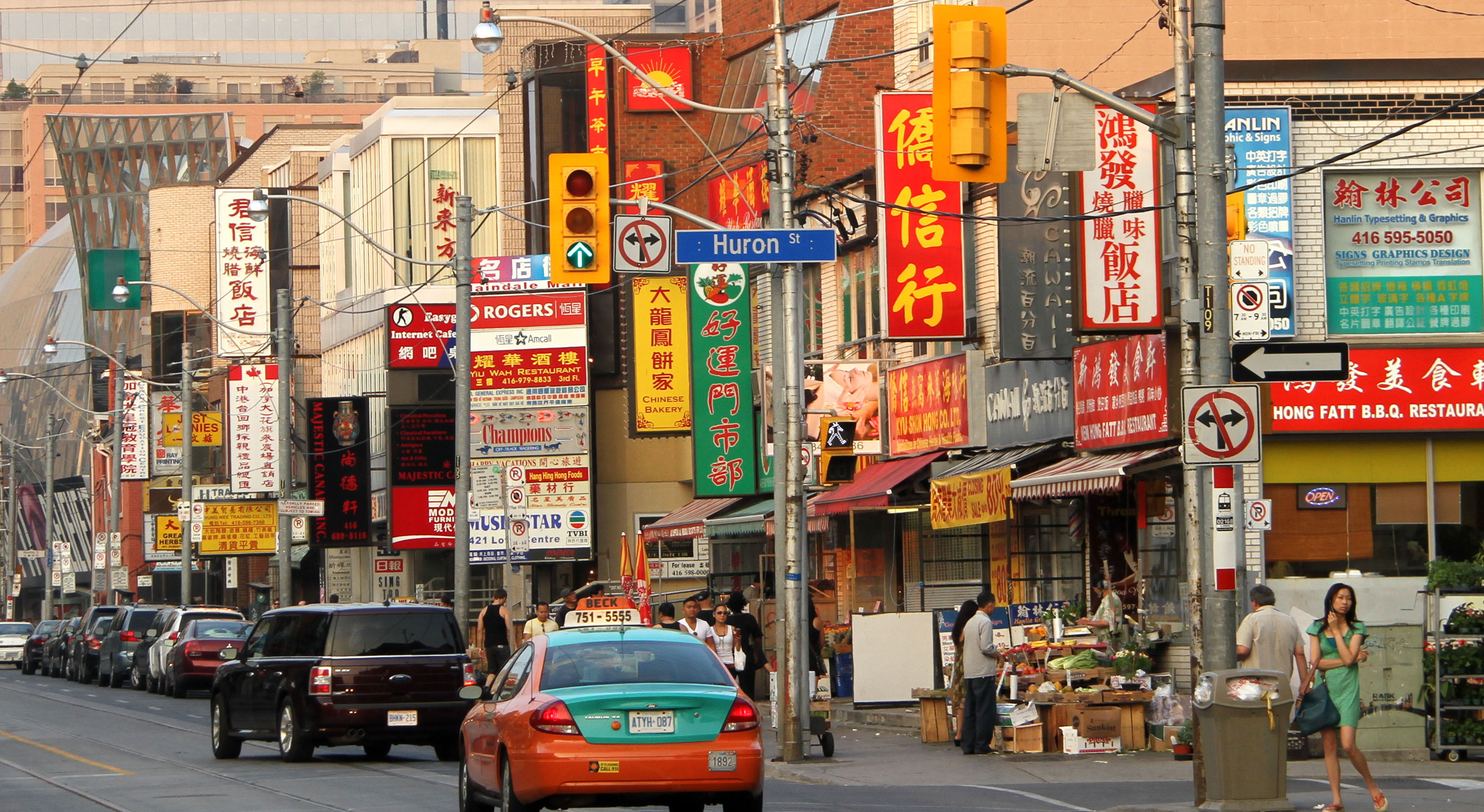 Chinatown District: Along Dundas St., looking east at Huron Street, Toronto, ON, Canada